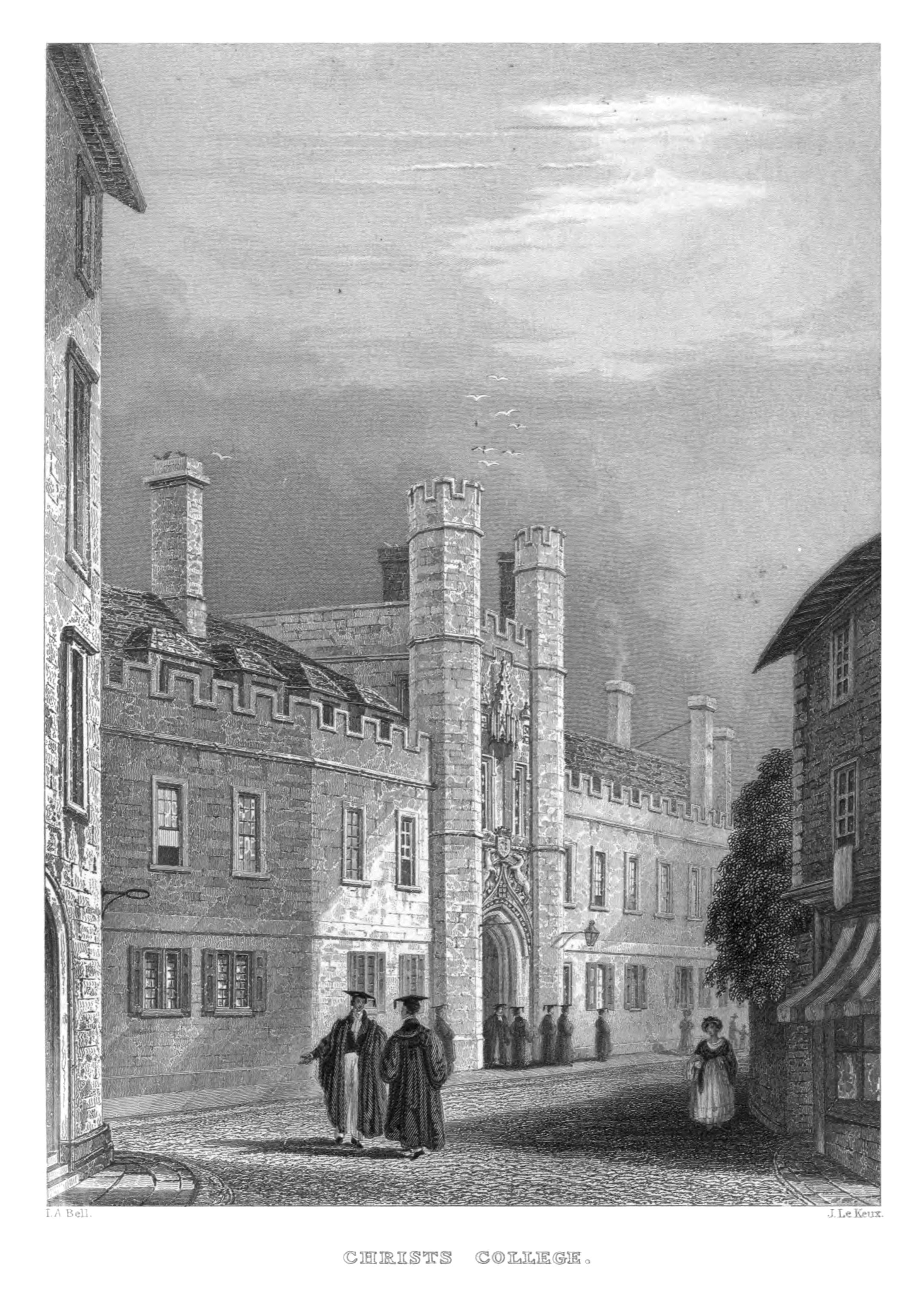 View of the front gate of Christ's College, Cambridge